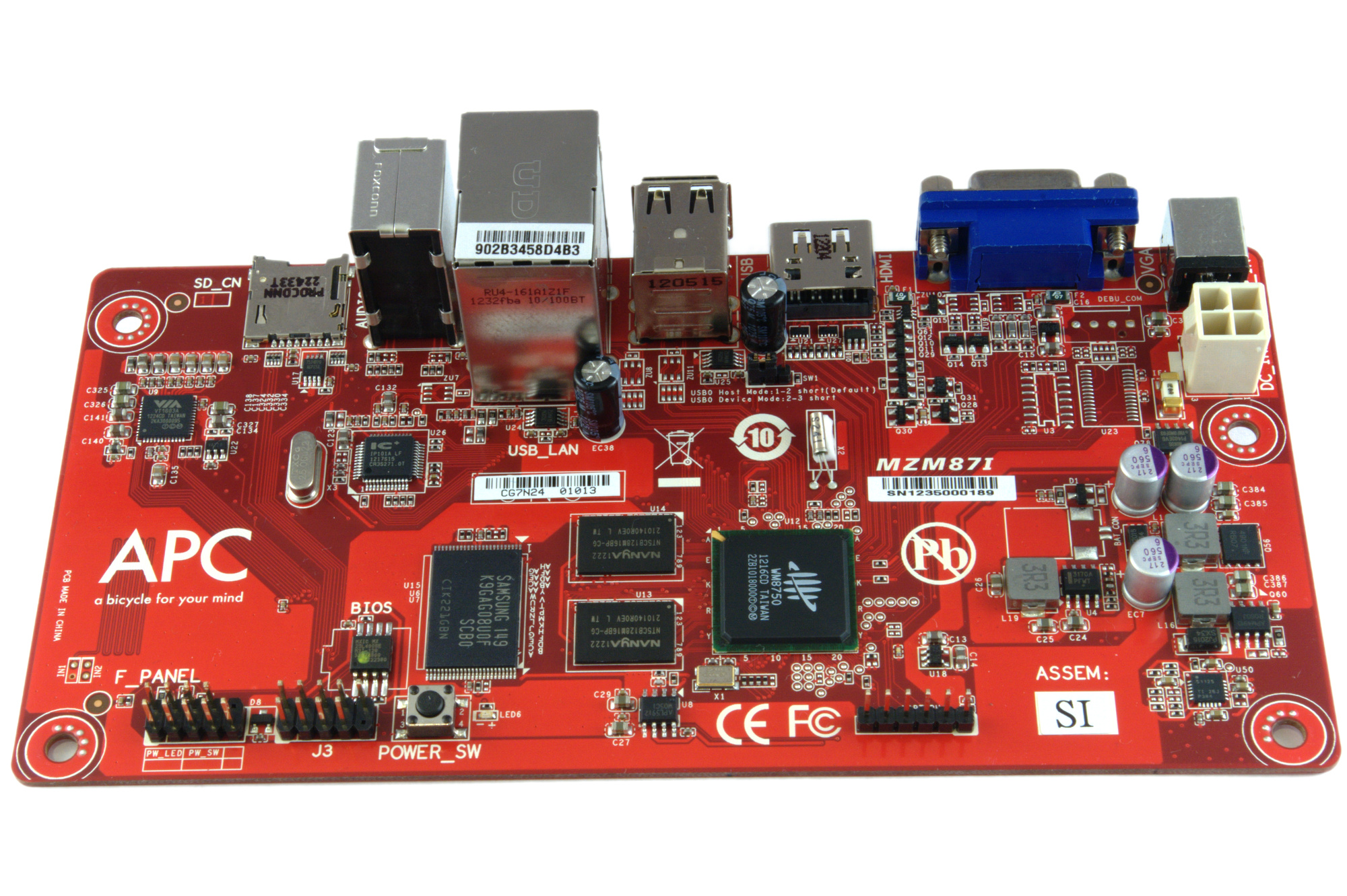 Android-based ARM-powered single-board computer from VIA, from original production run.